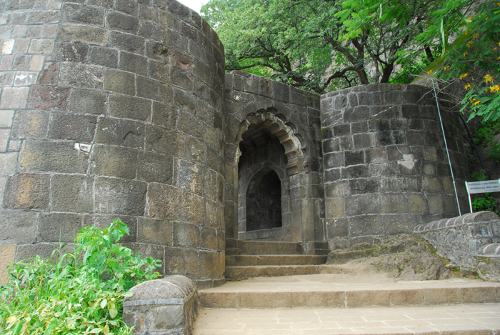 Main/First gate to the fort.